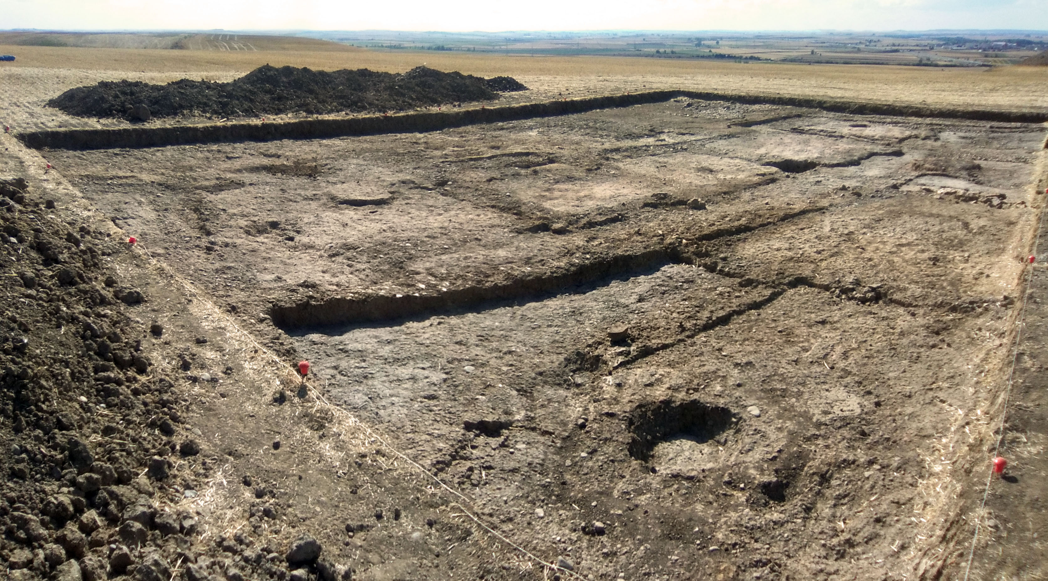 Archaeological vacceo-roman site of Dessobriga in Osorno (Palencia, Castile and Leon).